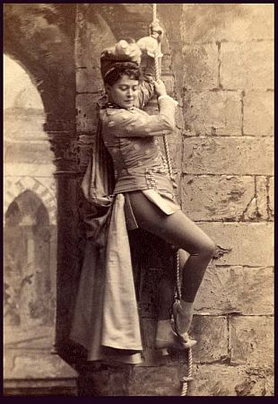 Marie Jansen in The Merry Monarch, by B.J. Falk, New York, 1890.